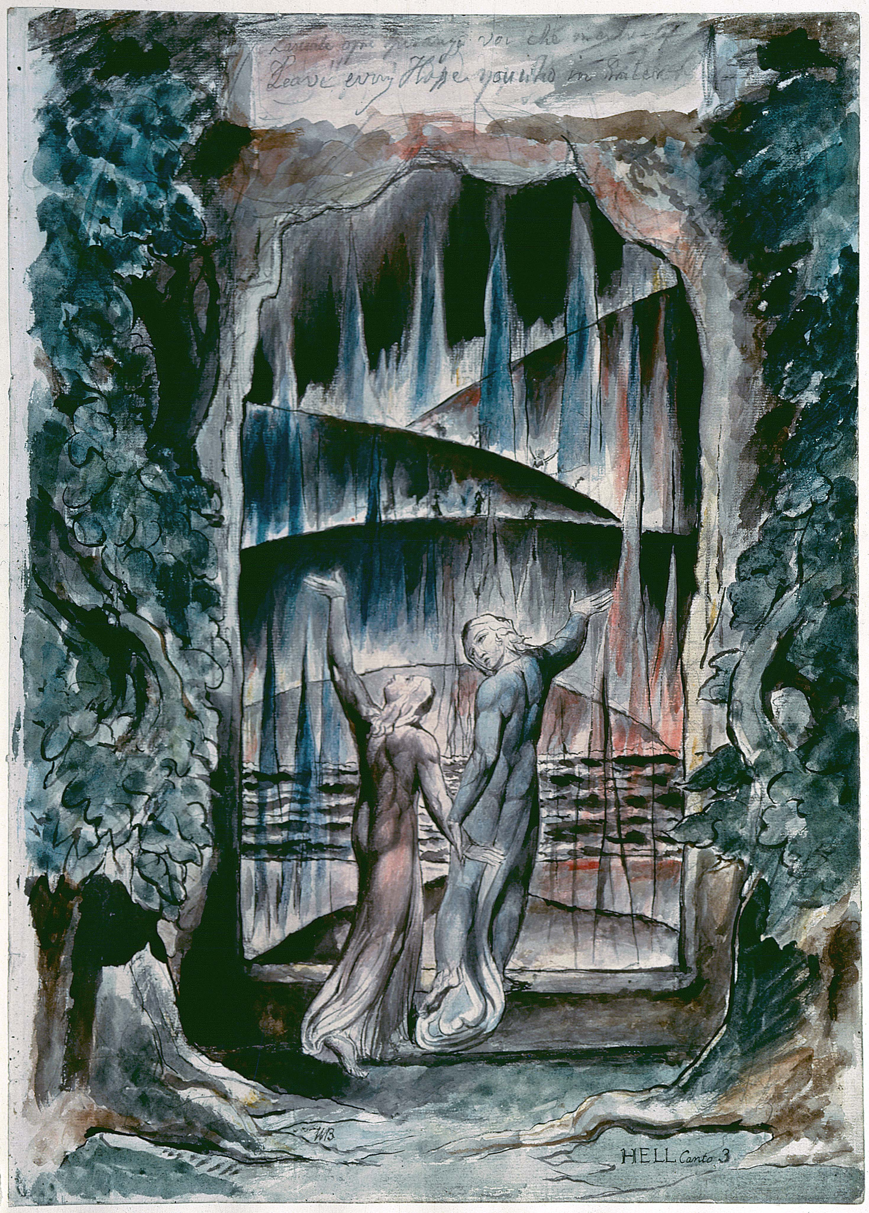 Illustrations to Dante's Divine Comedy object 4 Butlin 812-4 The Inscription over Hell-Gate